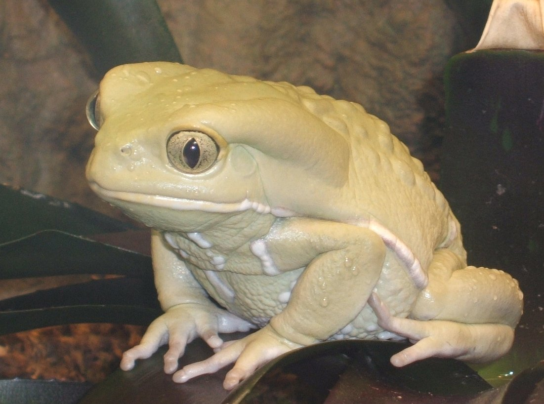 Waxy monkey frog (Phyllomedusa sauvagii) at the American Museum of Natural History (New York City), in a special frog exhibit.